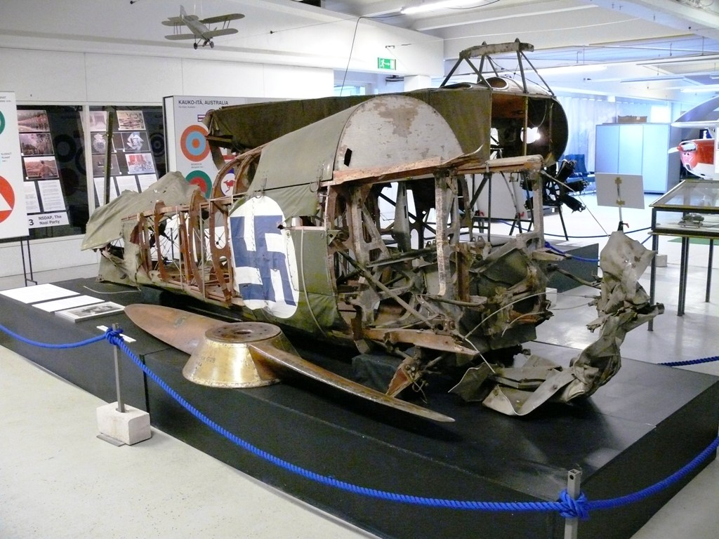 The body of Gloster Gamecock fighter in the Aviation Museum of Finland.